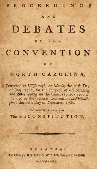 North Carolina. Convention (1788) Proceedings and Debates of the Convention of North-Carolina, Convened at Hillsborough, on Monday the 21st Day of July, 1788, for the Purpose of Deliberating and Determining on the Constitution Recommended by the General Convention at Philadelphia, the 17th Day of September, 1787: To Which is Prefixed the Said Constitution. Edenton: Printed by Hodge & Wills, 1789.